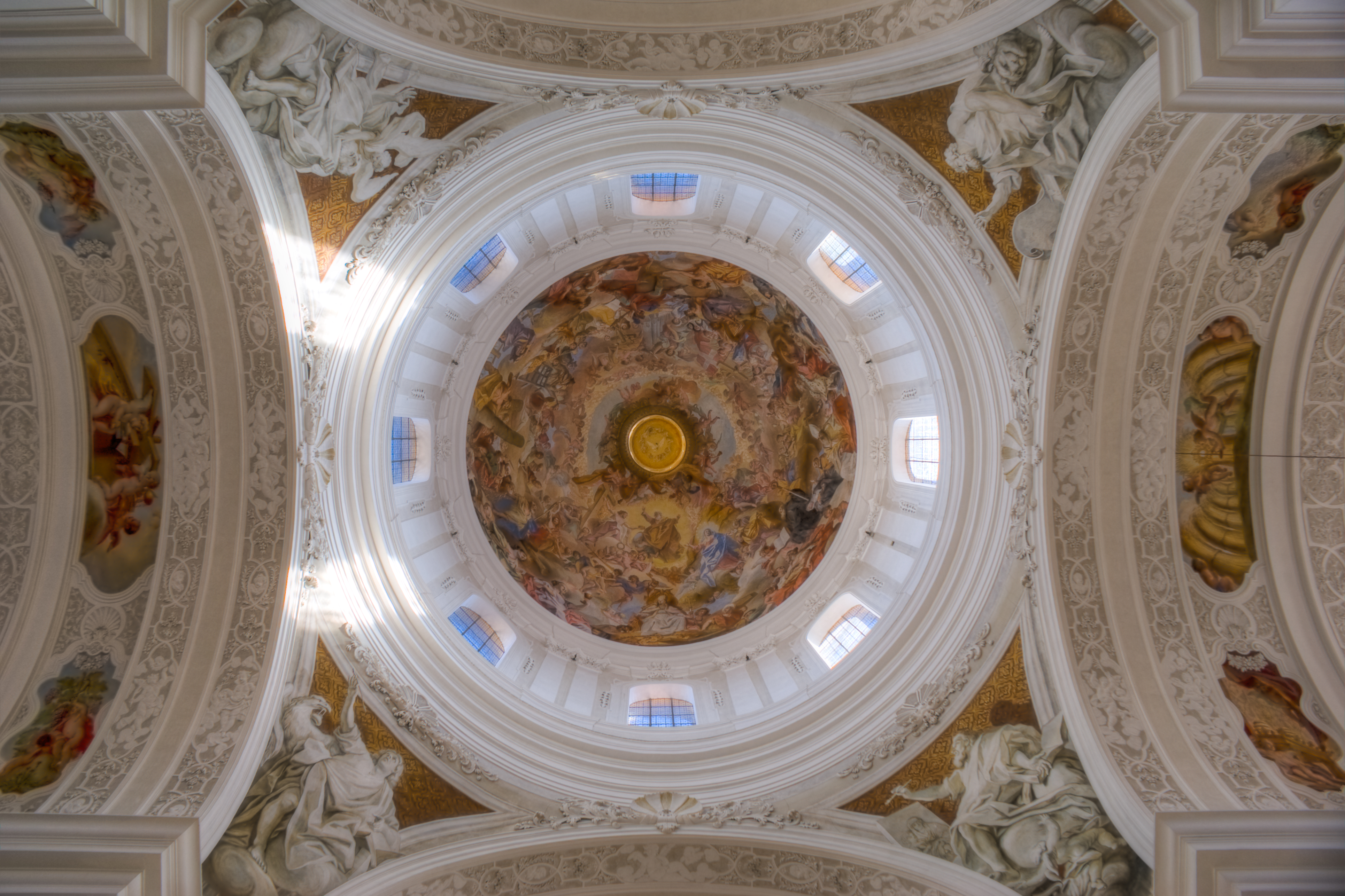 Inside the Weingarten Basilica, Dome